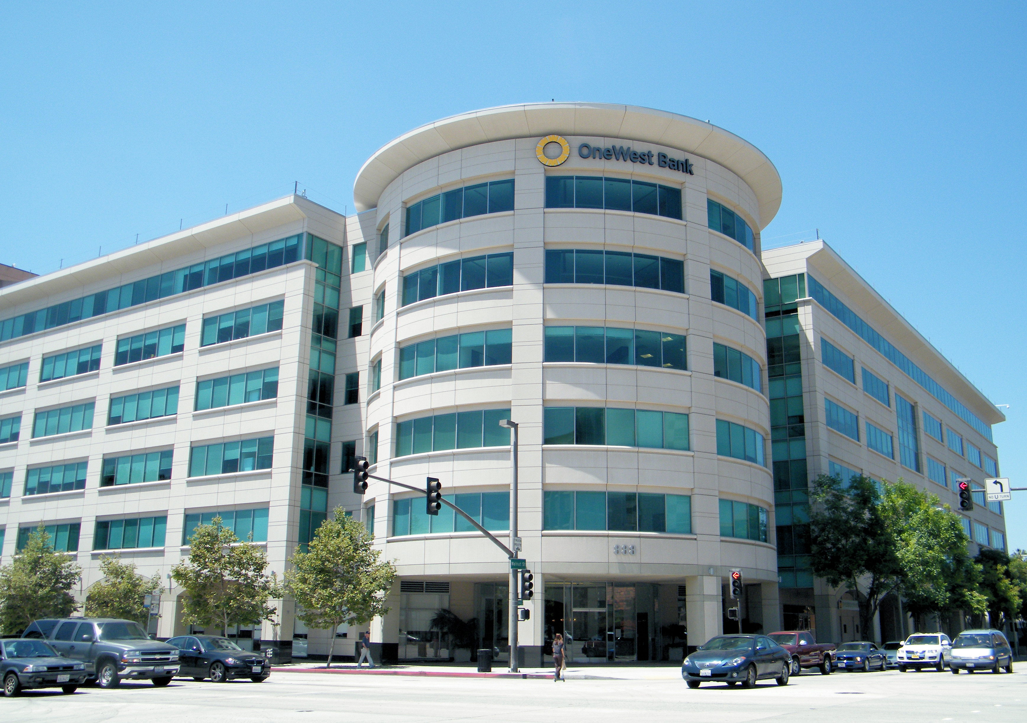 The former headquarters of OneWest Bank at 888 E. Walnut Street in Pasadena, California from 2009 to 2016.